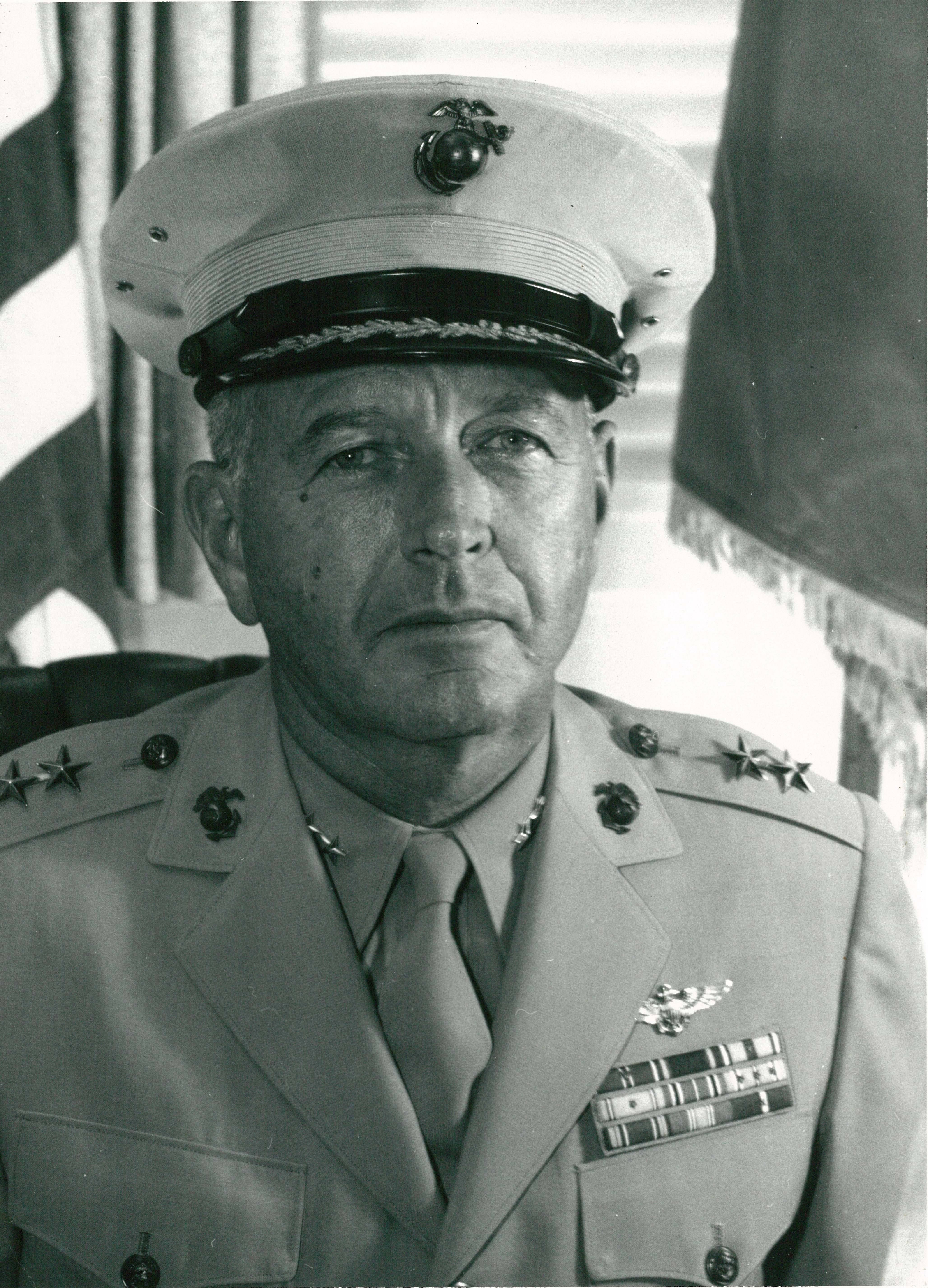 Headshot of MajGen Avery Kier